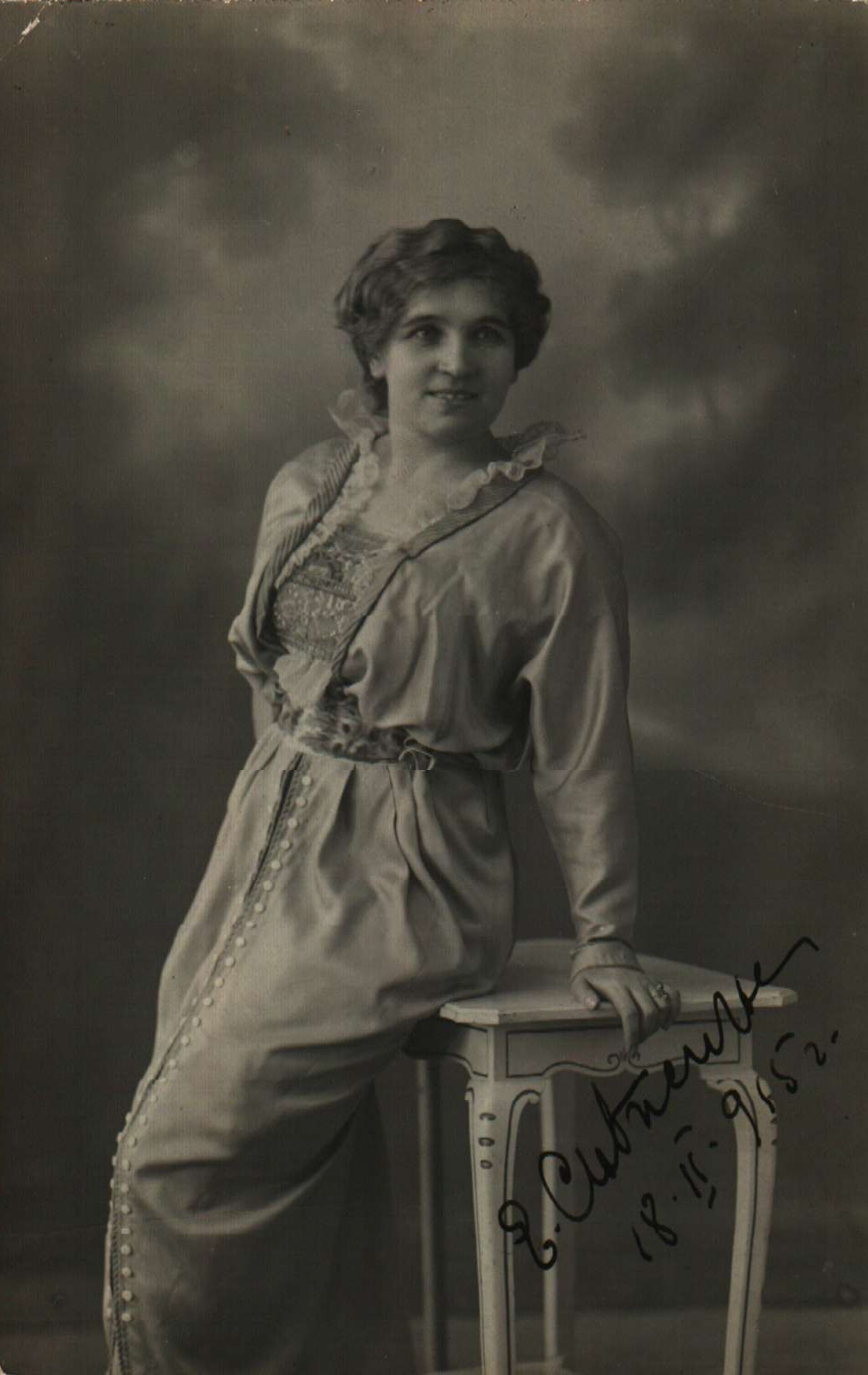 Bulgarian actress Elena Snezhina (1881-1944)